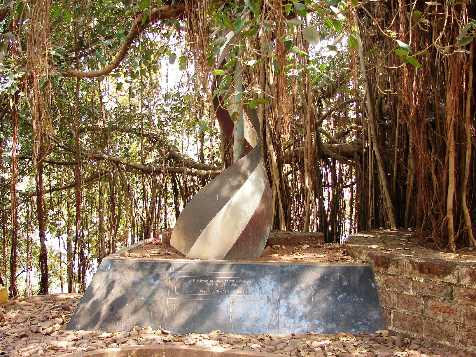 In the memory of Goa Freedom Fighters.JPG